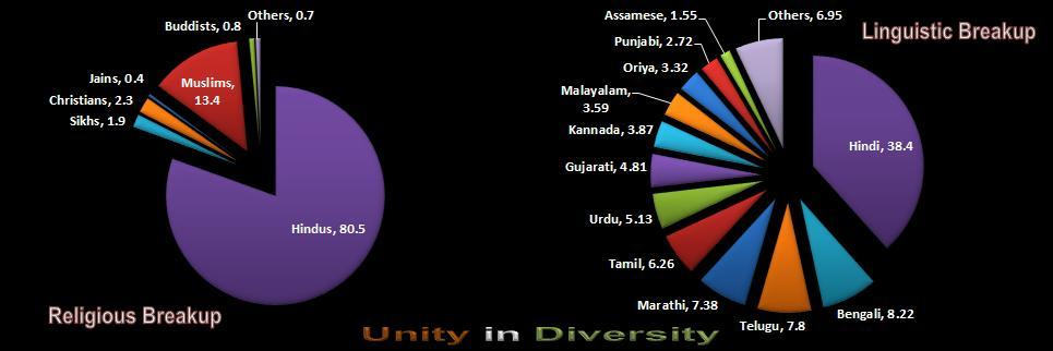 Religious breakup taken from 2001 census. Linguistic breakup taken from